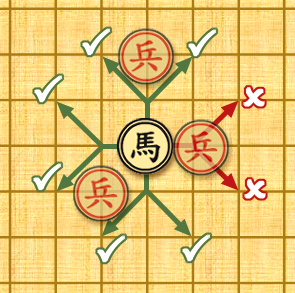 Diagram illustrating movement of the horse piece in the game xiangqi. Green moves are legal. Red moves are illegal because another piece is obstructing the way of the horse piece. Created by Jerry Crimson Mann 06:15, 13 July 2005 (UTC). Based on the original image by User:Lowellian at Image:MovementOfHorsePiece.gif.